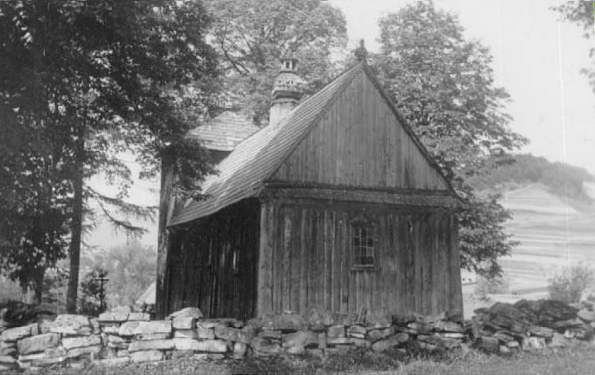 Greek Catholic church in Bóbrka (Lesko County)